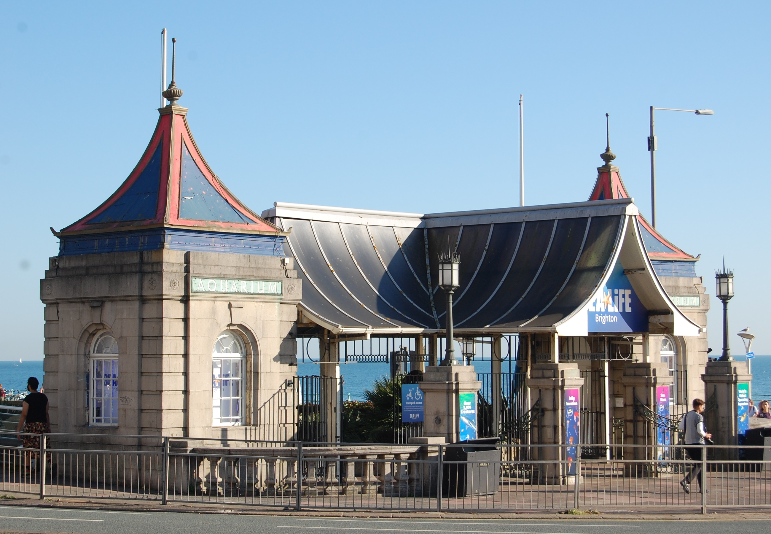 Brighton Sea Life Centre (former Aquarium), Madeira Drive, Brighton, City of Brighton and Hove, England.